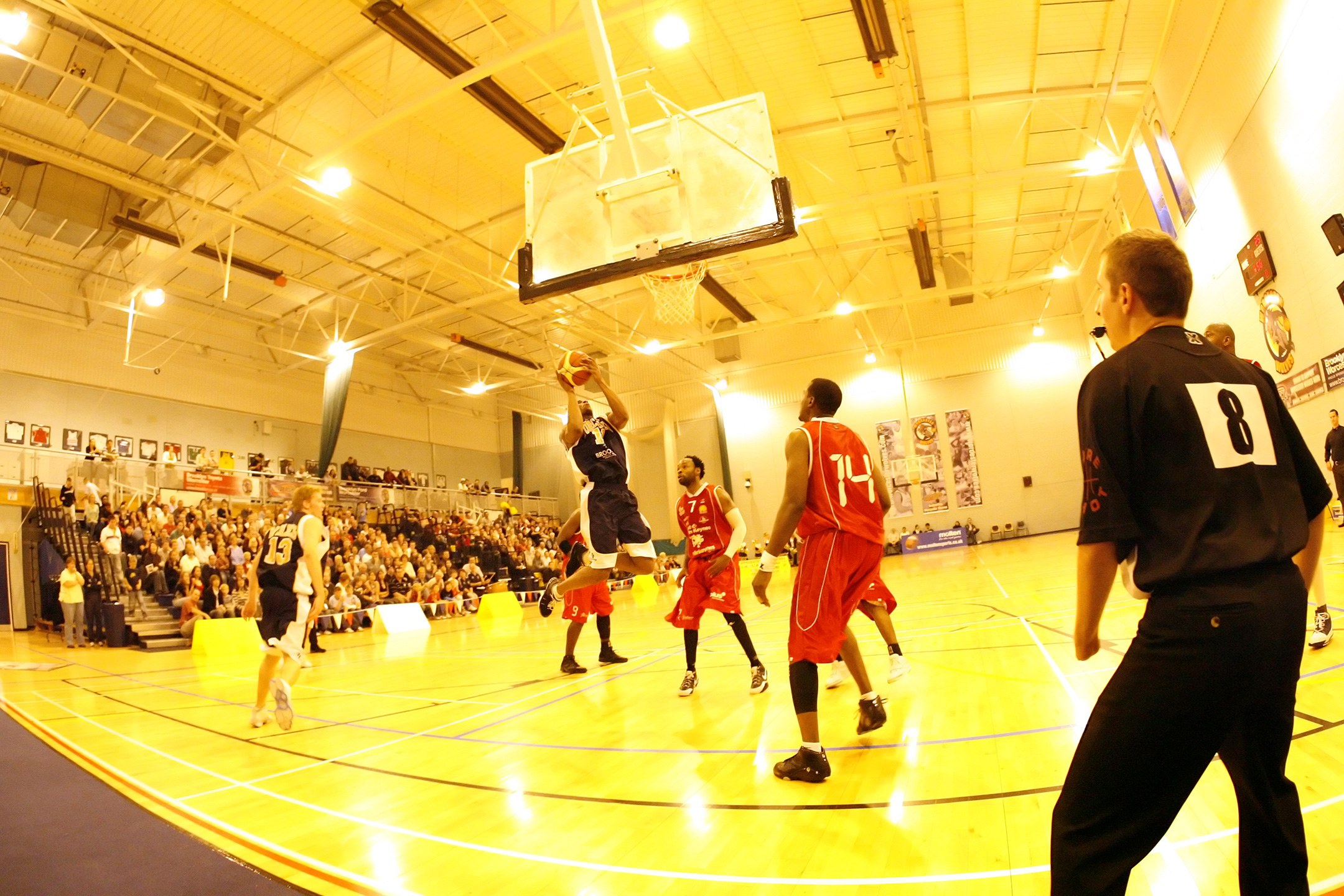 University of Worcester Sports Centre, home venue of the Worcester Wolves professional basketball team.